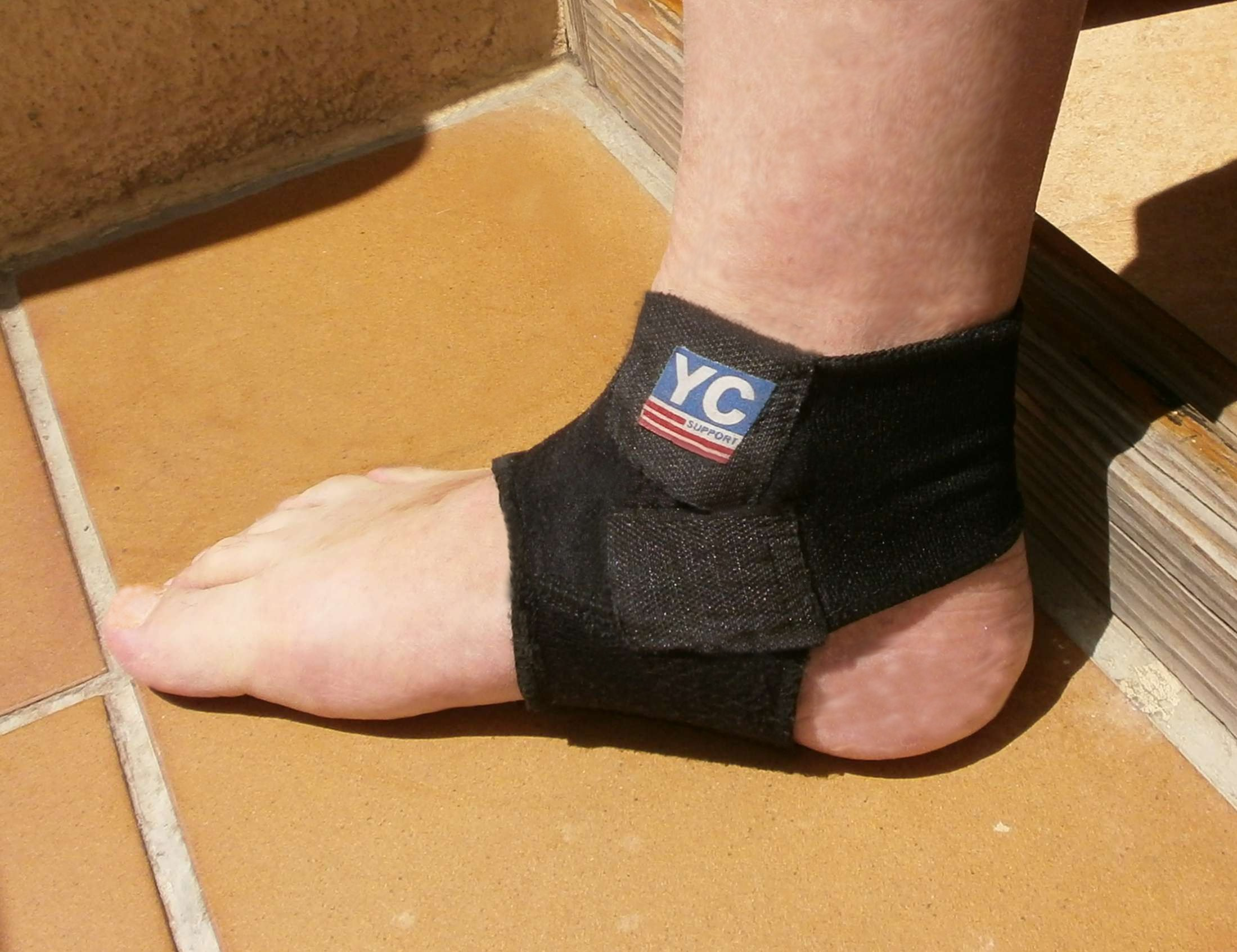 View of an adjustable ankle brace (with Velcro)